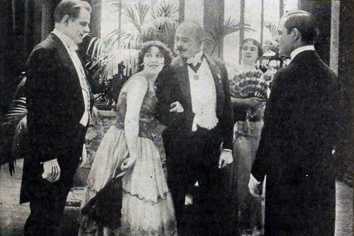 Illustration of a review in The Moving Picture World for the American drama film The Tarantula (1916).